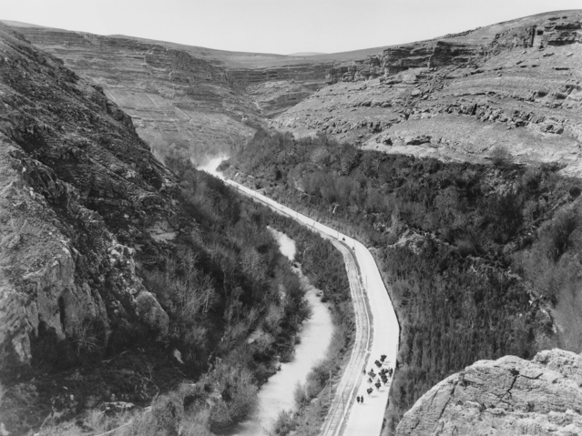 Barada Gorge, where on 30 September 1918, troops from the Australian 3rd and 5th Light Horse Brigades attacked Ottoman and German troops withdrawing from Damascus